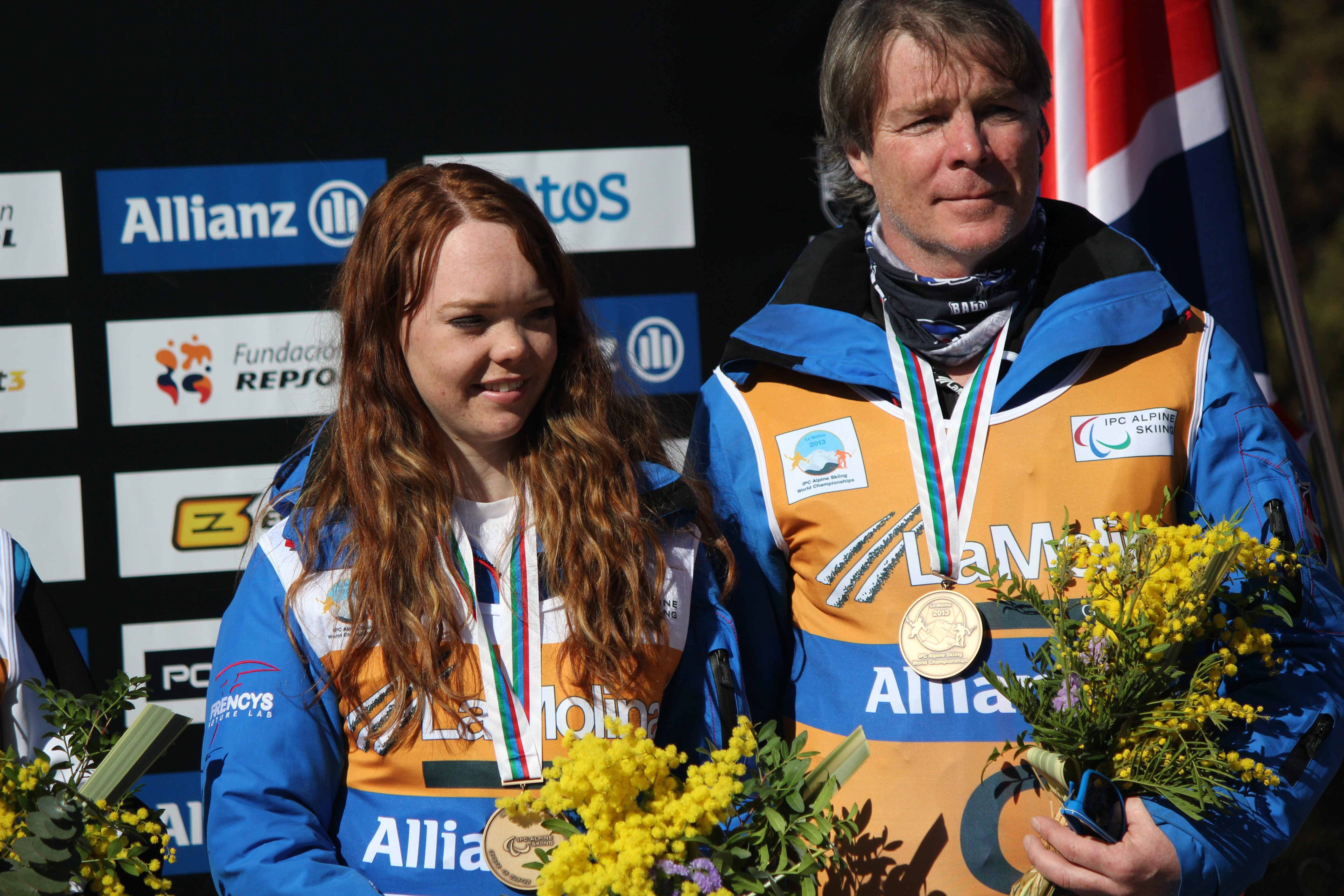 Bronze medallist Jade Etherington and guide. Super G, Visually impaired. 2013 IPC Alpine World Championships in La Molina Spain.